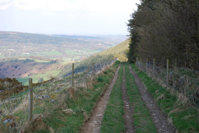 Llwybr Ceiriog above Pengwern Vale Wonderful views from Ceiriog Trail high above Pengwern.